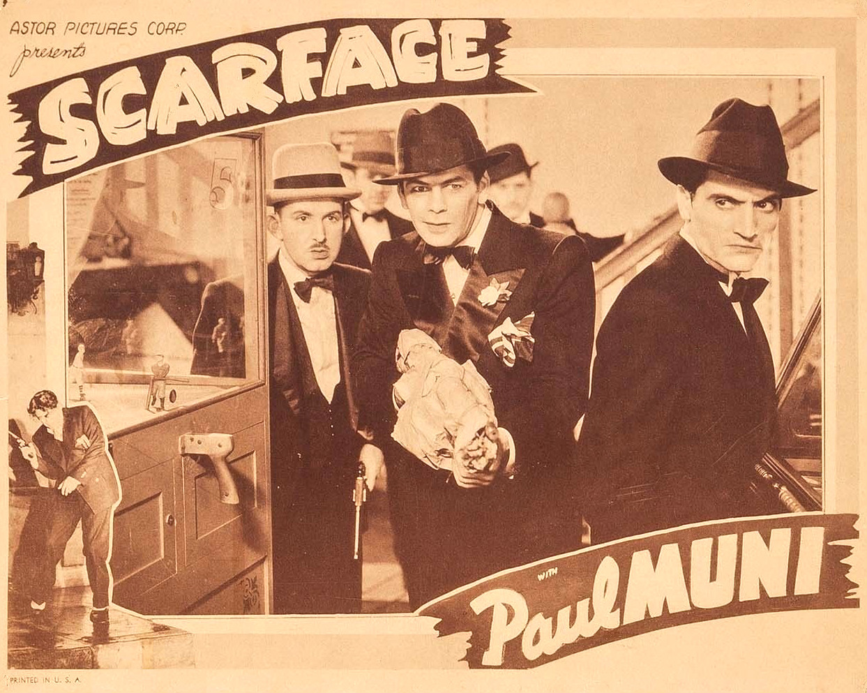 Lobby card for the 1932 film Scarface.